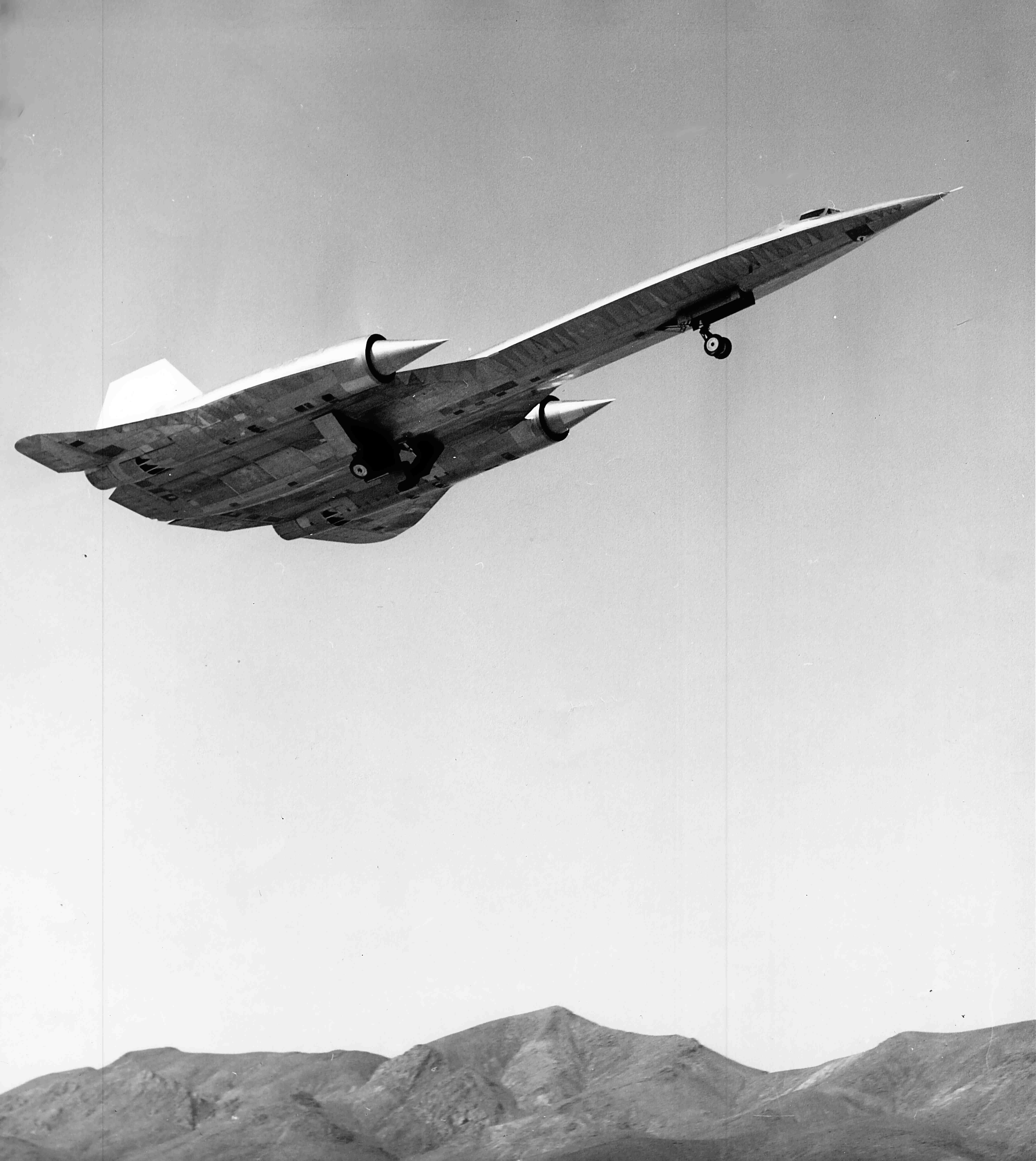 An A-12 (60-6924) takes off from Groom Lake during one of the first test flights, piloted by Louis Schalk. Lockheed Martin dates this image (mouse over) as the maiden flight of the A-12, taken April 26, 1962. Roadrunners Internationale, a reunion website for employees of secret US programs, labels the image as the second Schalk flight, dated May 4, 1962. According to , this photograph was taken during the official maiden flight on April 30, 1962 (and the April 26 flight was an accidental take-off).